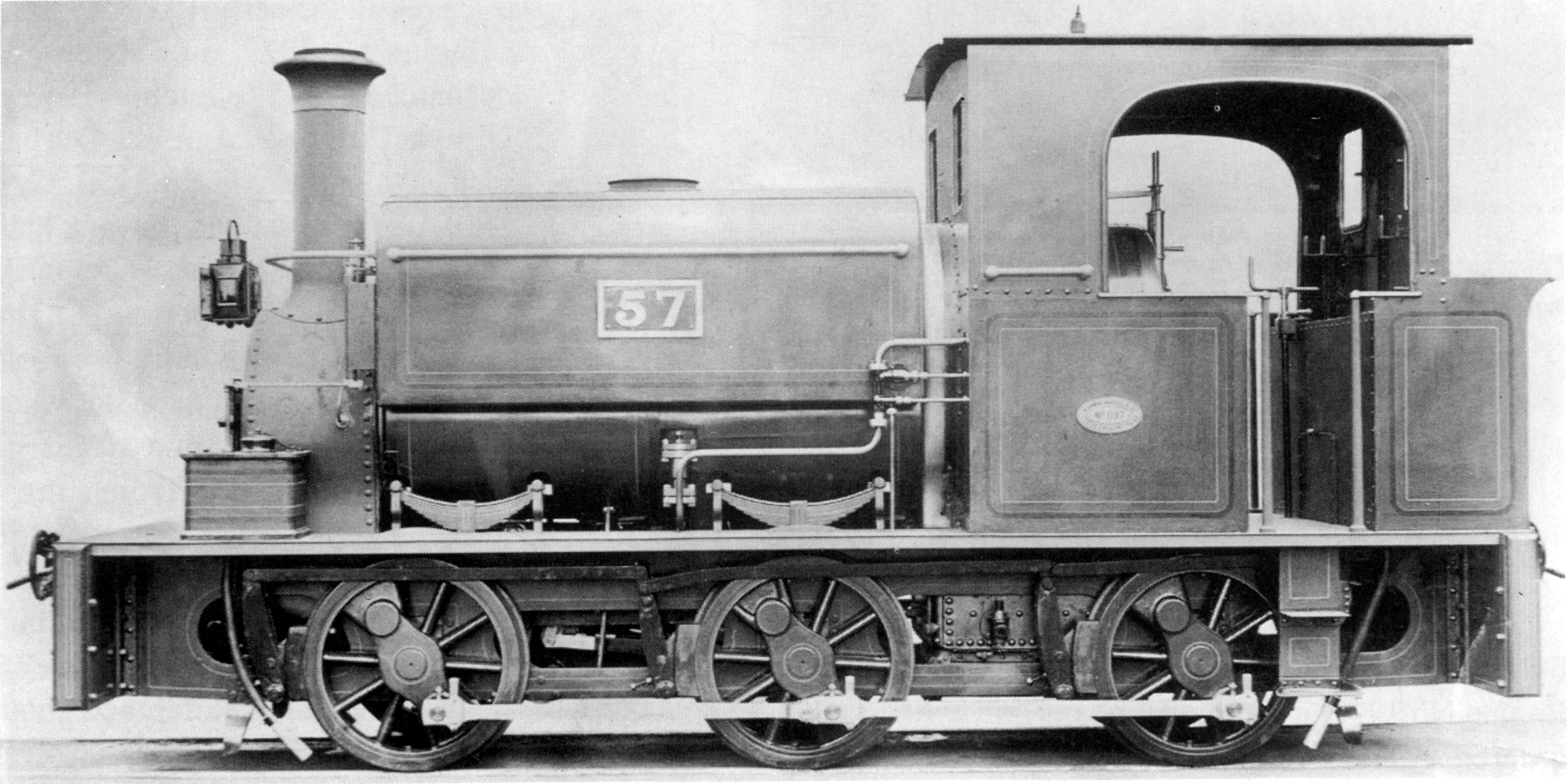 NZASM 18 Tonner no. 13, Delagoa Railway no. 57 (0-6-0ST)